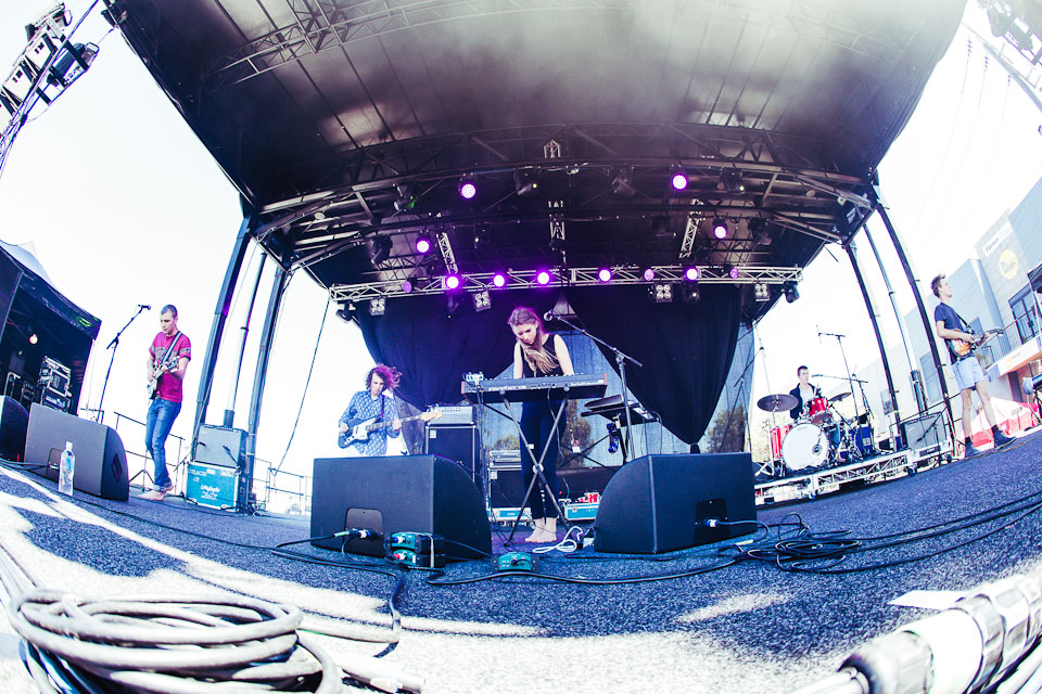 Image captured during Snakadaktal's set at St Jeremy's Laneway Festival in Melbourne, Feb 2013